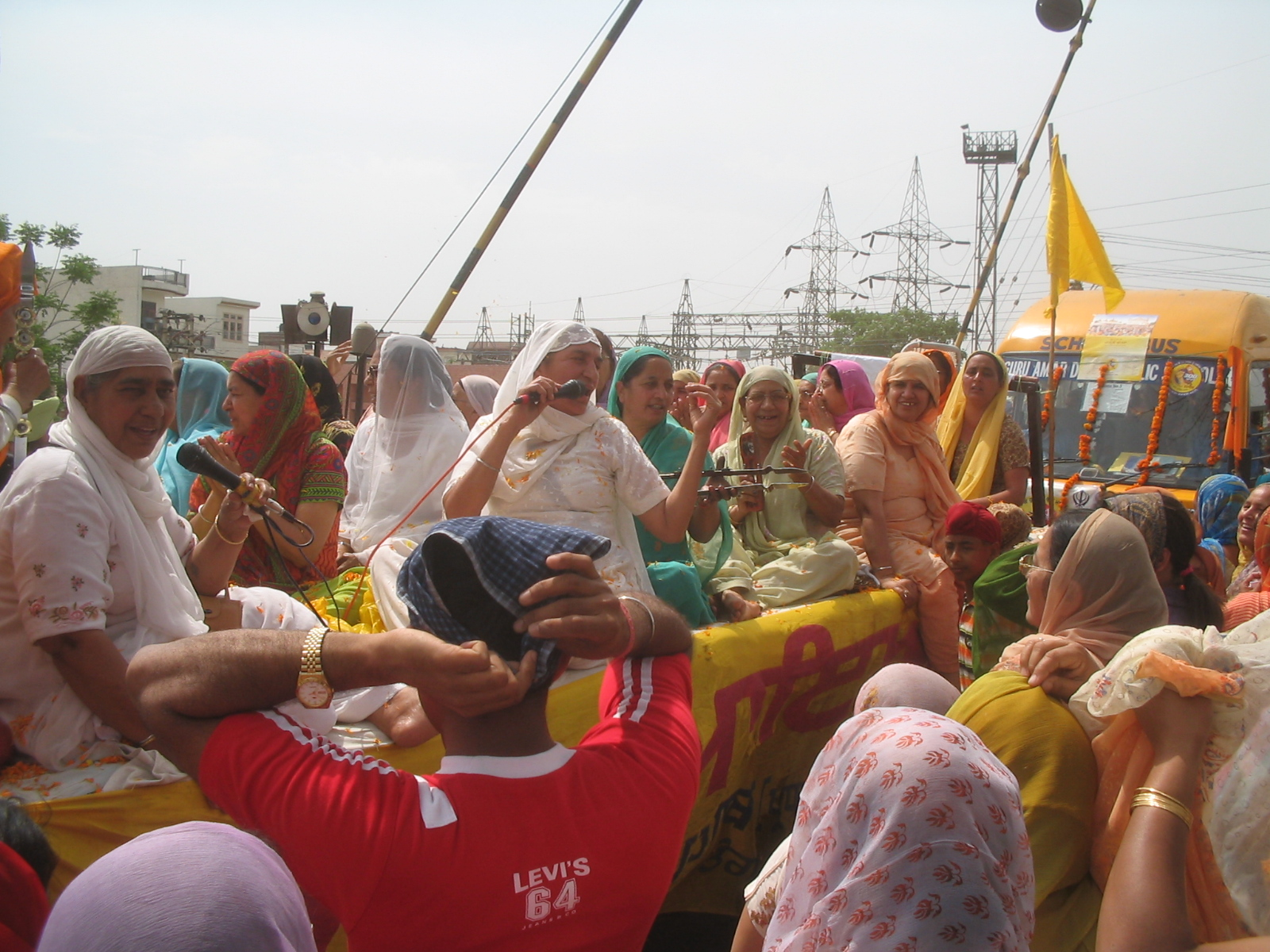 Reciting of hymns, throughout the journey create an ambiance of religious obeisance, besides soothing the minds. -- This one shot near my house (1035 Urban Estate, Phase-I, Jalandhar-City, Punjab, India). In the background you can see the railway crossing of Urban Estate Phase-I/II and also the electricity sub-station.